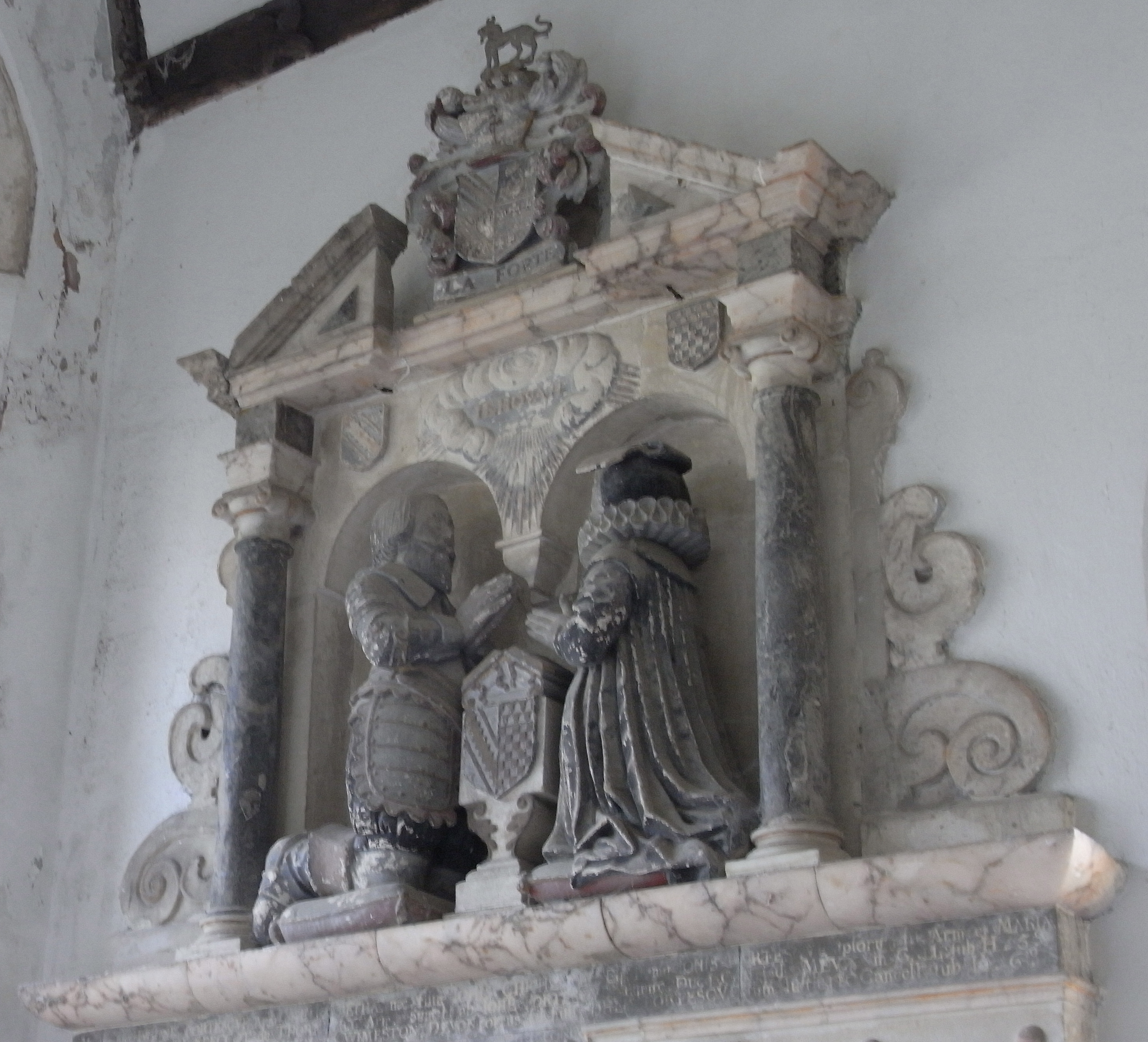 Detail from Fortescue mural monument, Weare Giffard Church, Devon, showing kneeling effigies of Hugh Fortescue (1545-1600) of Weare Giffard Hall and of Filleigh, both in Devon, Sheriff of Devon in 1583, and of his wife Elizabeth Chichester (d.1630), a daughter of Sir John Chichester (c. 1516/22-1569) of Raleigh in the parish of Pilton and of Youlston both in North Devon, a Member of Parliament, Sheriff of Devon in 1552 and 1557, by his wife Gertrude Courtenay, a daughter of Sir William Courtenay (1477–1535) of Powderham in Devon. (Vivian, Lt.Col. J.L., (Ed.) The Visitations of the County of Devon: Comprising the Heralds' Visitations of 1531, 1564 & 1620, Exeter, 1895, p.354). Top tier of Fortescue mural monument, Weare Giffard Church, Devon